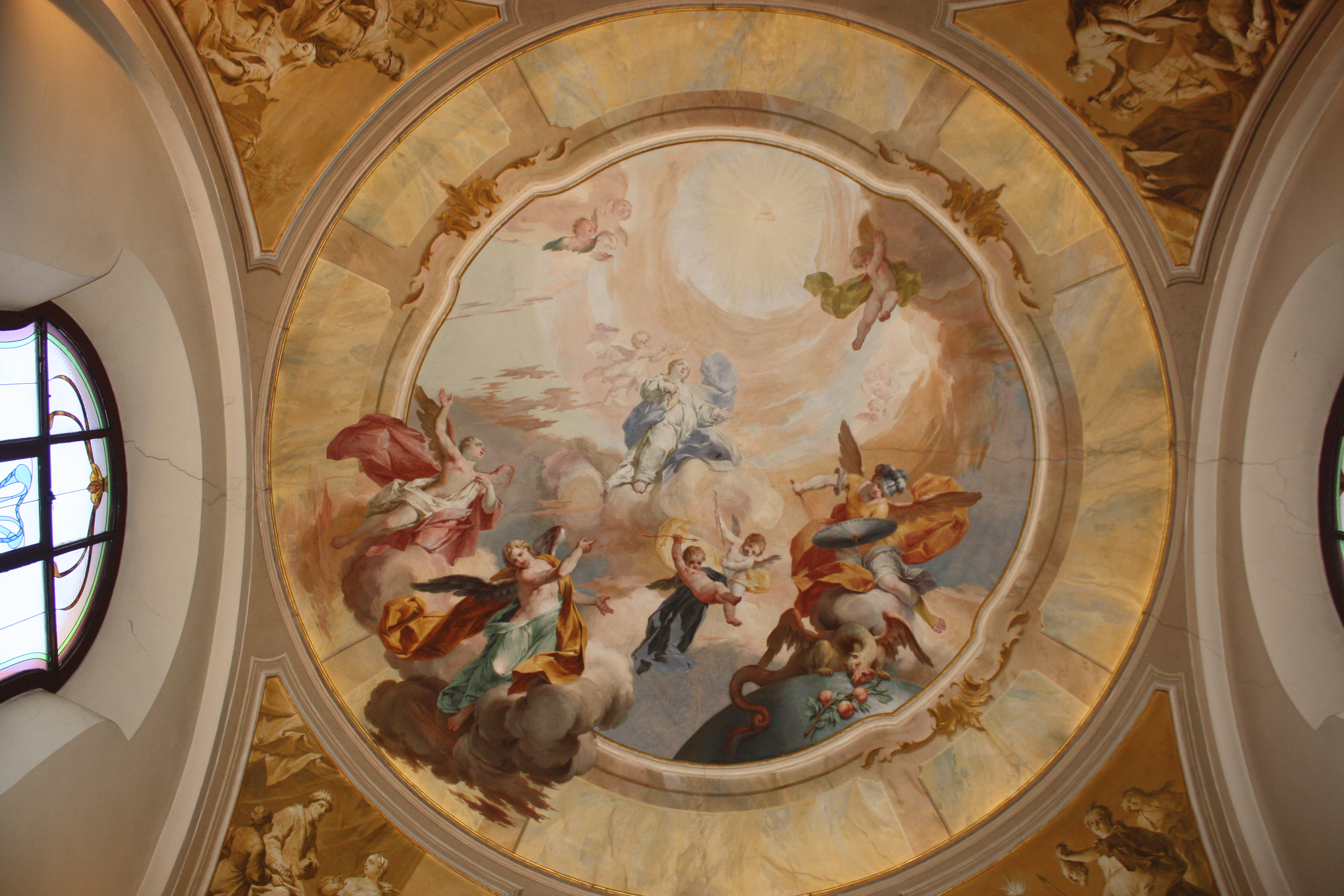 Madonna in Prato church (Busto Arsizio) - Frescos on the ceiling